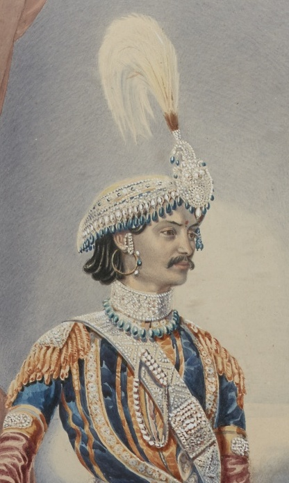 A watercolour over pencil portrait (heightened with bodycolour and gum arabic) of the Prime Minister and Commander-in-Chief of Nepal, Sir Jang Bahadur Kunwar Rana. Signed lower left: C. Grant. Calcutta. 1850. 665 by 453 mm; 26 by 18 in.